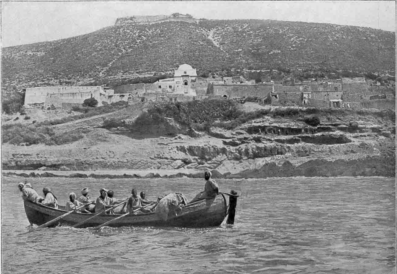 Agadir, Morocco - Founti & Casbah - 1905